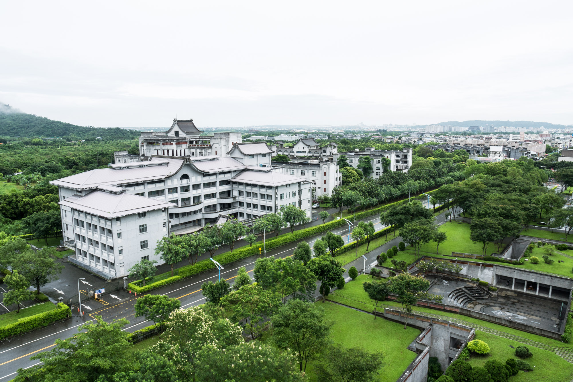 Administration Building of Tzu Chi University of Science and Technology